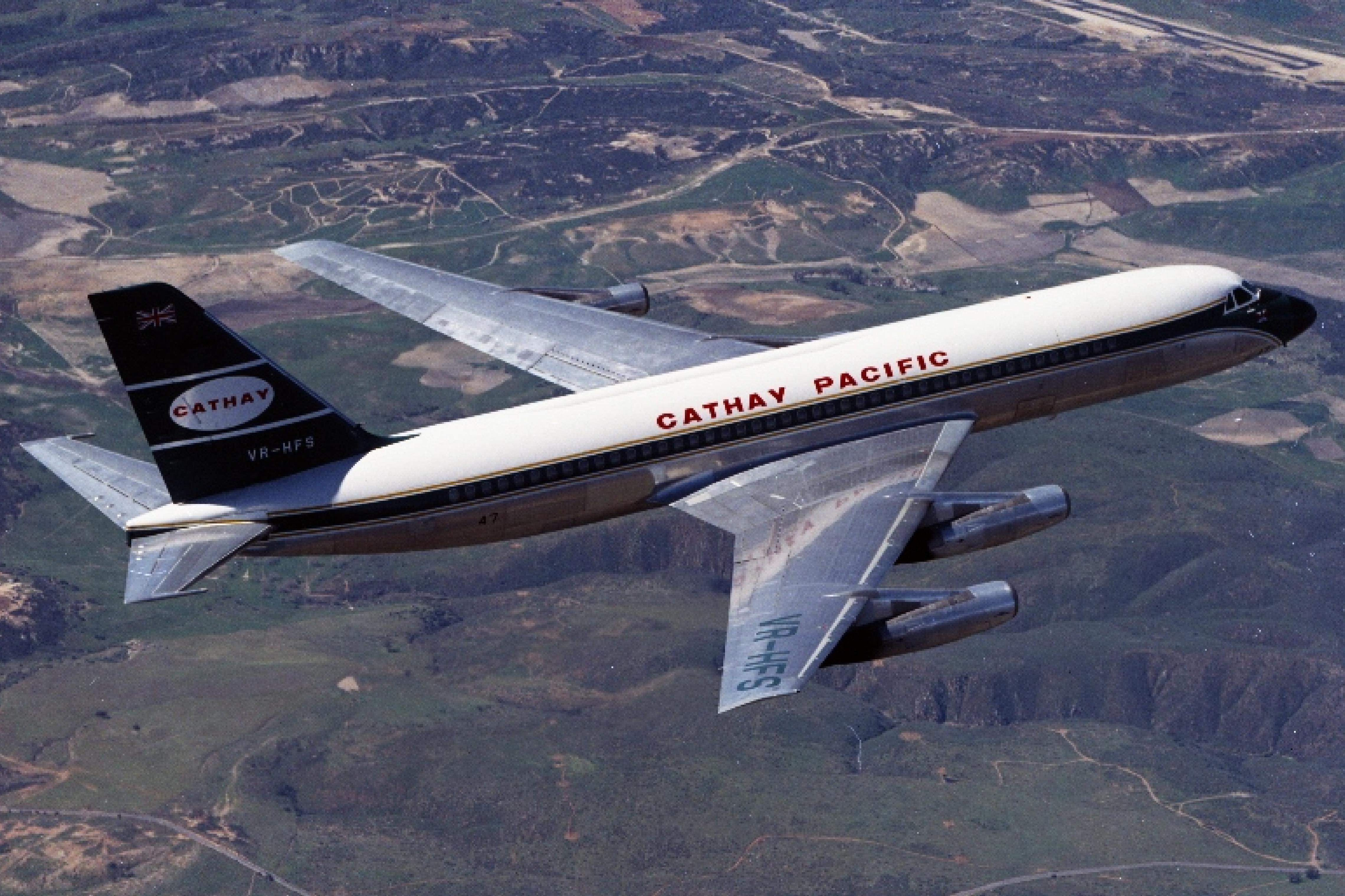 Image donated to SDASM from Convair/General Dynamics-- ---Please Tag these images so that the information can be permanently stored with the digital file.---Repository: San Diego Air and Space Museum